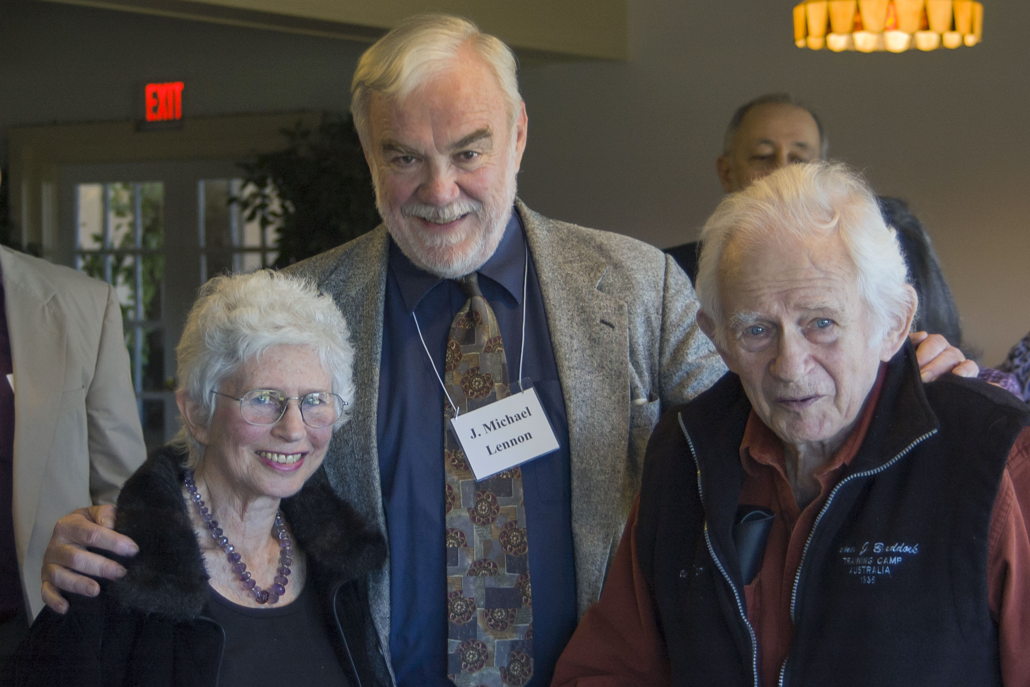 Barbara Wasserman, Mike Lennon, and Norman Mailer at the Conference of the Norman Mailer Society in 2006, Provincetown, MA. Photo by Donna Lennon.